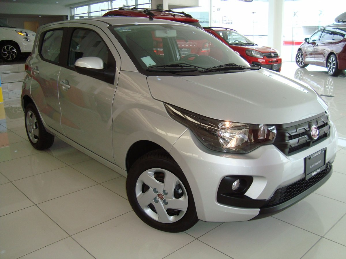 Fiat Mobi Like 1.0 Fire flex